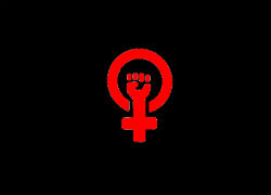 Zapatismo Feminism